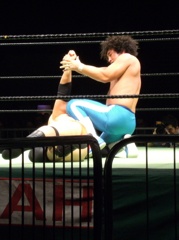 Atsushi Aoki has Joel Redman in an Armbar